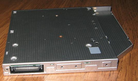 A DVD burner in SlimLine design